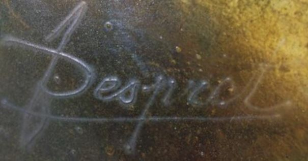 George Despret's signature